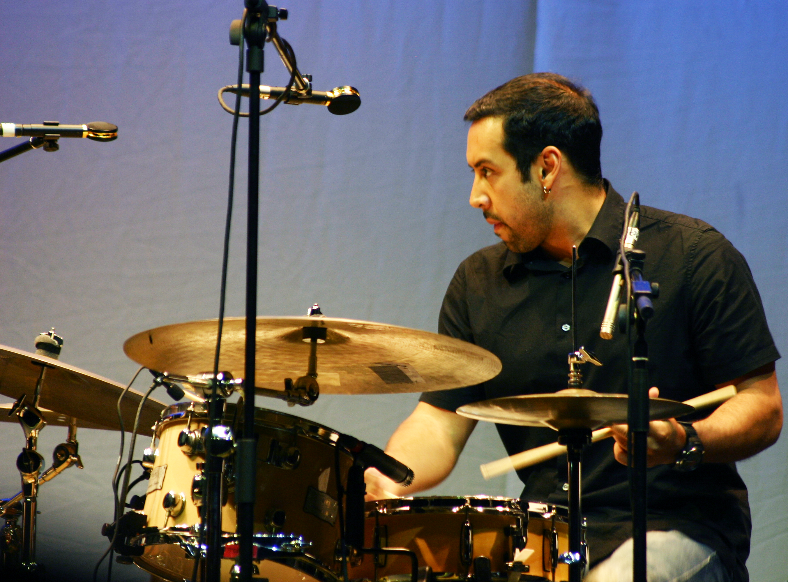 Antonio Sánchez in Santiago, Chile, with the Chick Corea Trio.